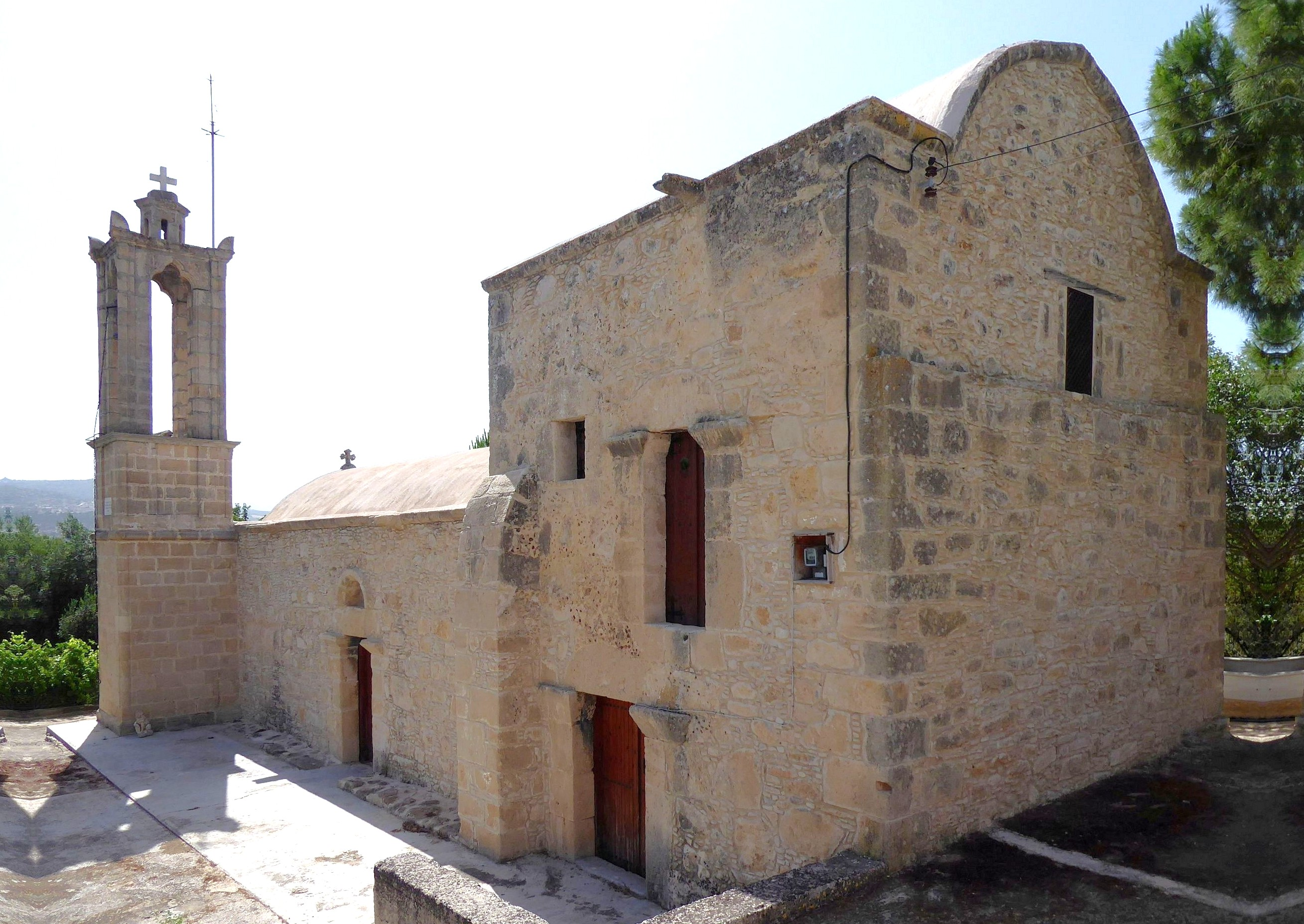 Church of Archangel Michael (Choli)